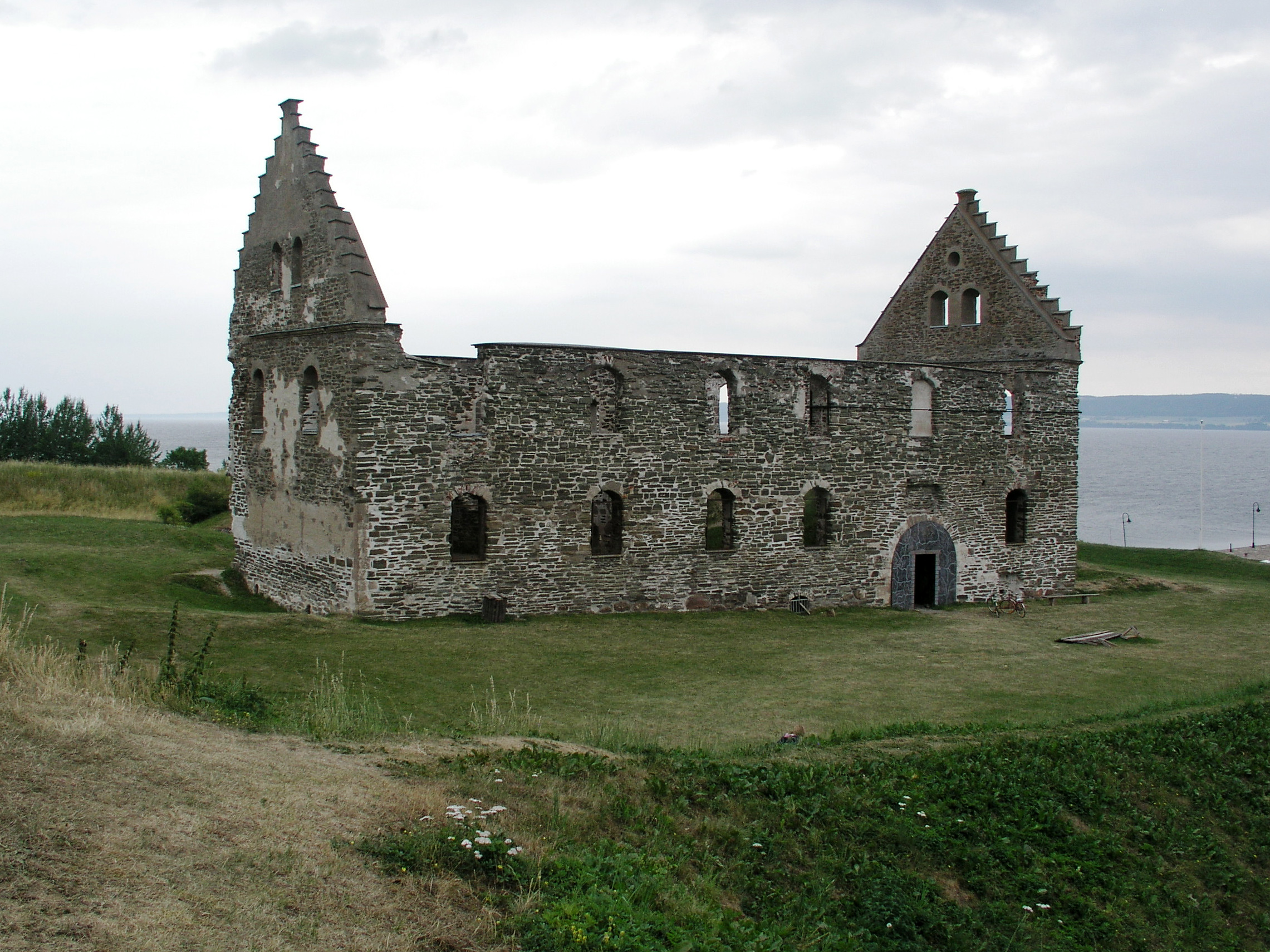 Visingsborg, old castle on the isle of Visingsö, Sweden